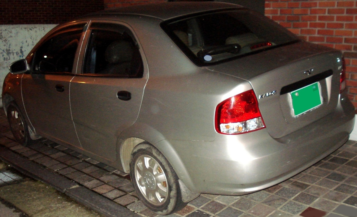 Daewoo Kalos